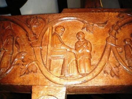 Alan Durst carving "Absolution" on the Woodchurch Rood Screen